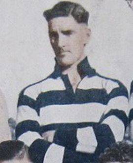 Photo of Lou Daily in 1934